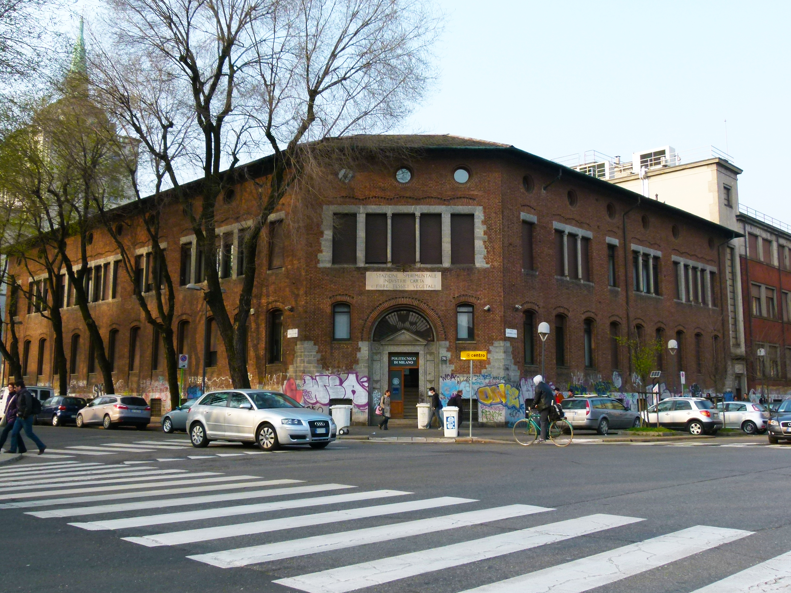 Italian Stazione Sperimentale Carta, Cartoni e Paste per Carta (Pulp and Paper Experimental Station) and dean offices of the Alta Scuola Politecnica, in Milan.